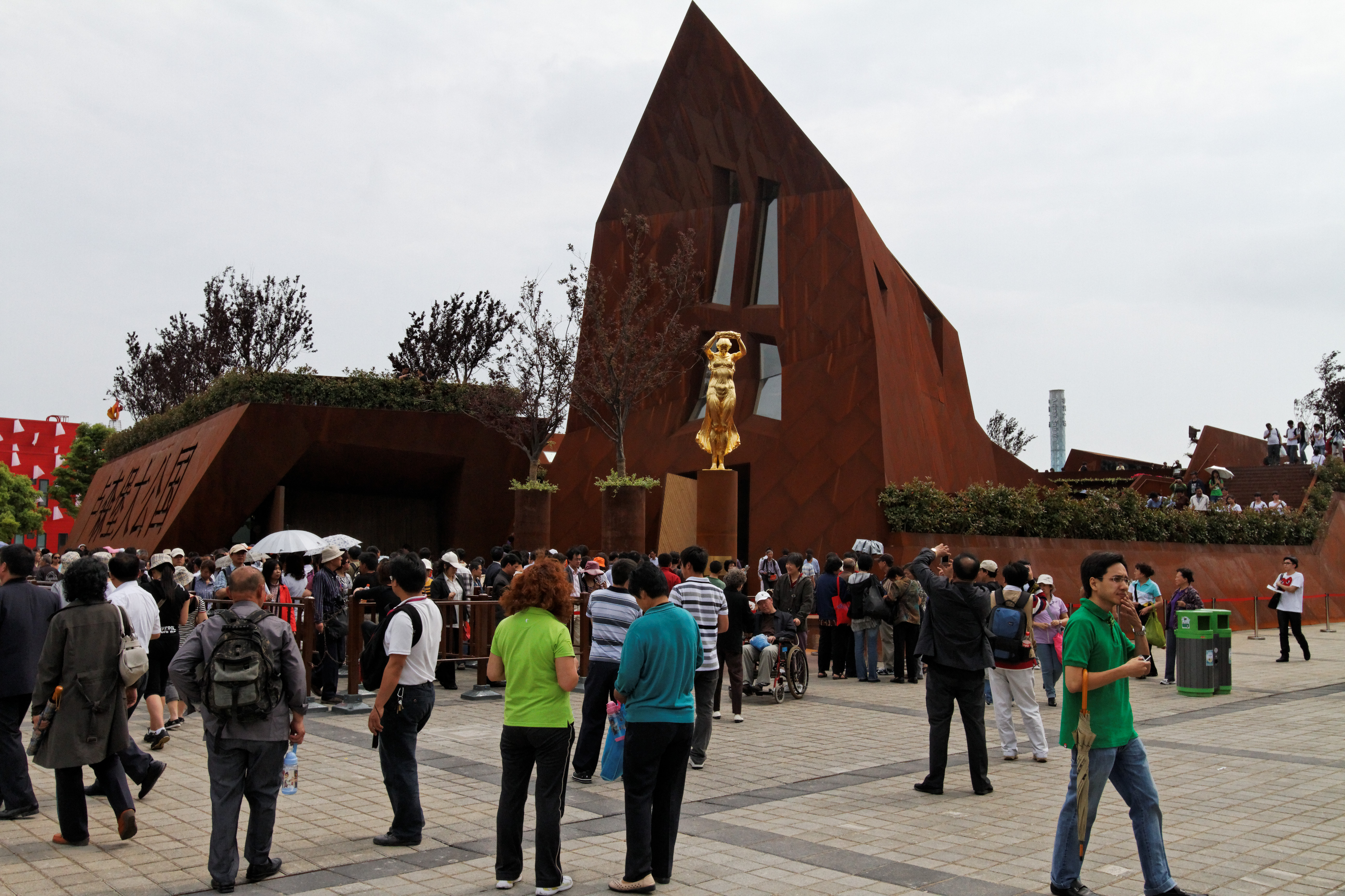 Luxemburg Pavilion of Expo 2010